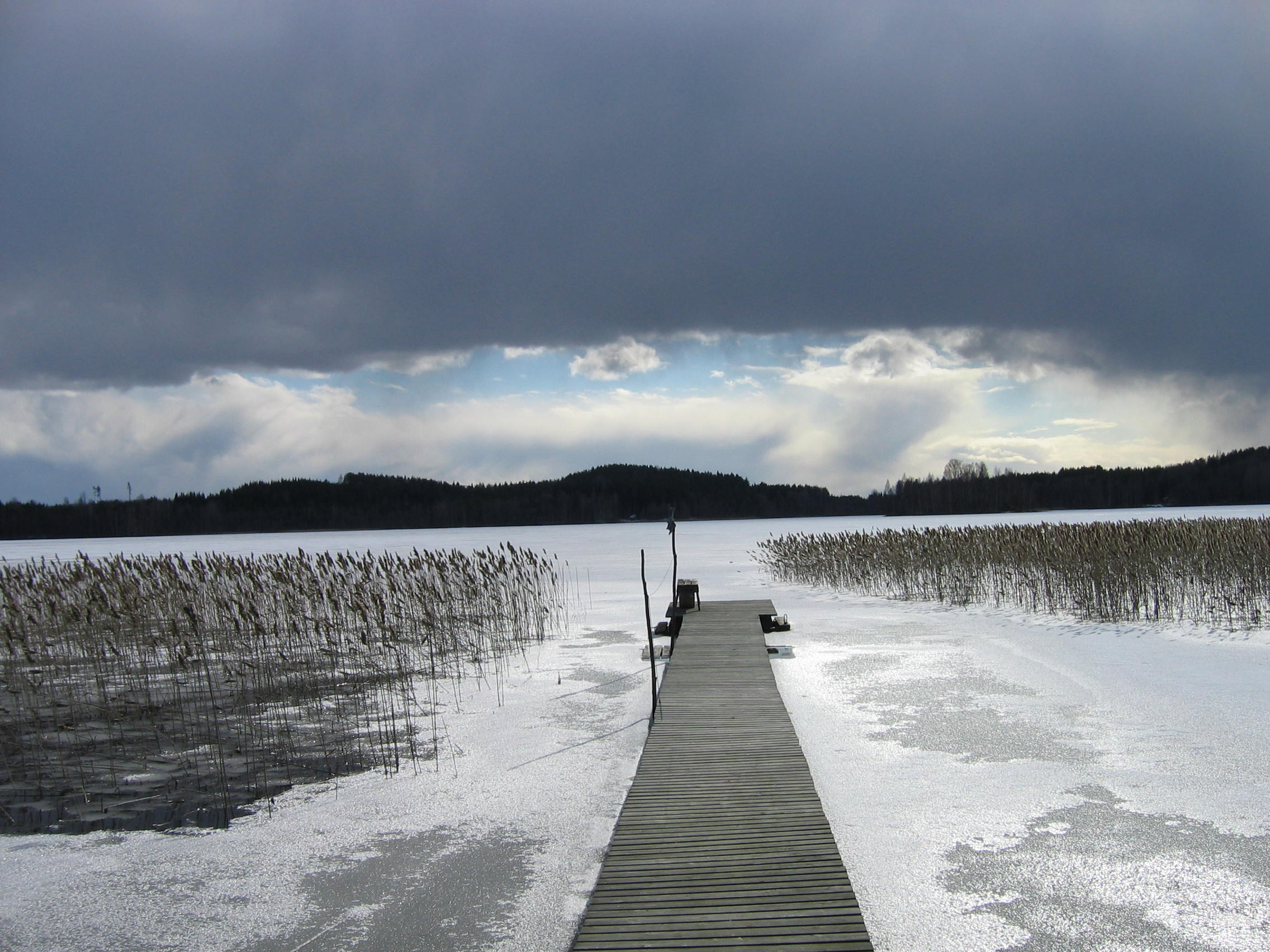 The Simpelejärvi lake in Parikkala, Finland, in Rautalahti.